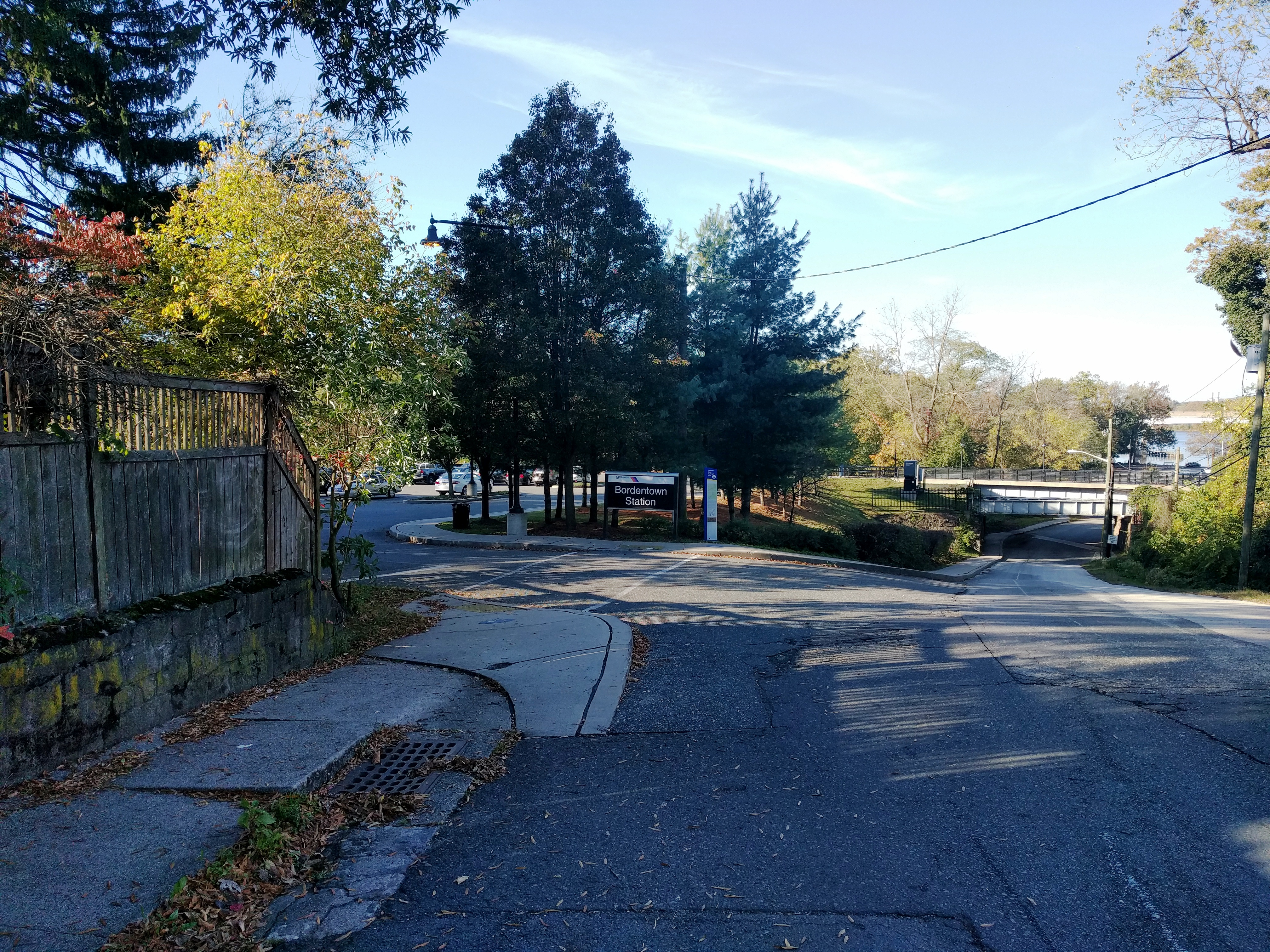 Photo showing the entrance to the Bordentown station along NJ Transit's River Line. Photo taken looking west along West Park Avenue past Prince Street in Bordentown, New Jersey.